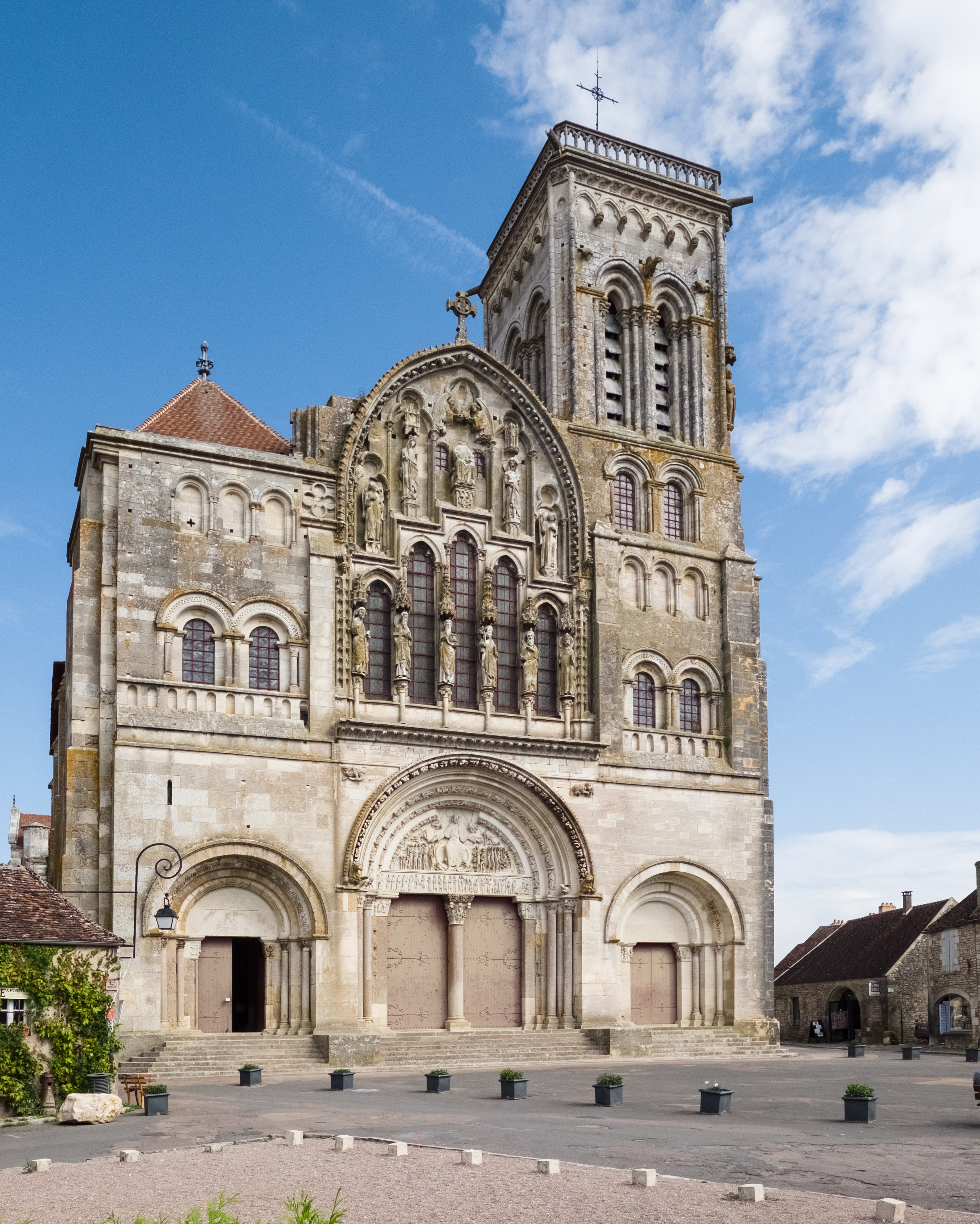 Basilica Sainte-Marie-Madeleine (Mary Magdalene), Vezelay, Département Yonne, Bourgogne-Franche-Comté, France This is a retouched picture, which means that it has been digitally altered from its original version. Modifications: Perspektivkorrektur.